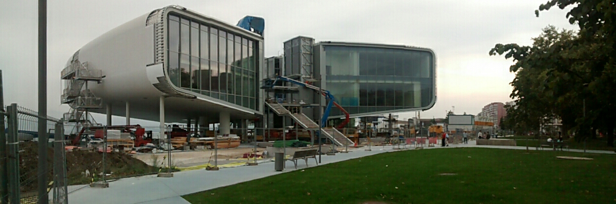 Botín Art Centre, in Santander (Cantabria, Spain). Building during the last weeks of construction.